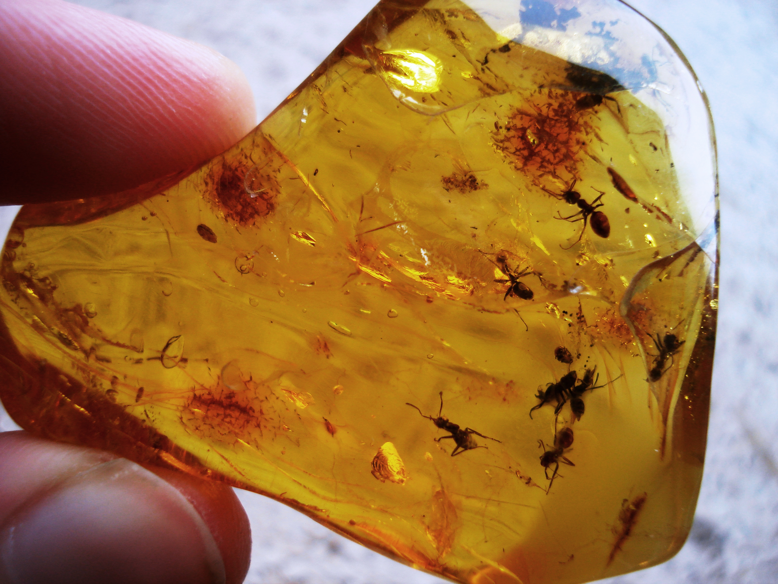 Baltic amber inclusions - 40-50 million years old - Ant (Hymenoptera, Apocrita, Vespoidea, Formicidae, ...?) The ants a about 4 mm long. This piece contains 9 ants and 1 Elateridae. 2 of ants contain a enhydro. The images: Baltic amber inclusions - Ant (Hymenoptera, Formicidae) 10, 11 and 12 show close-ups of the ants